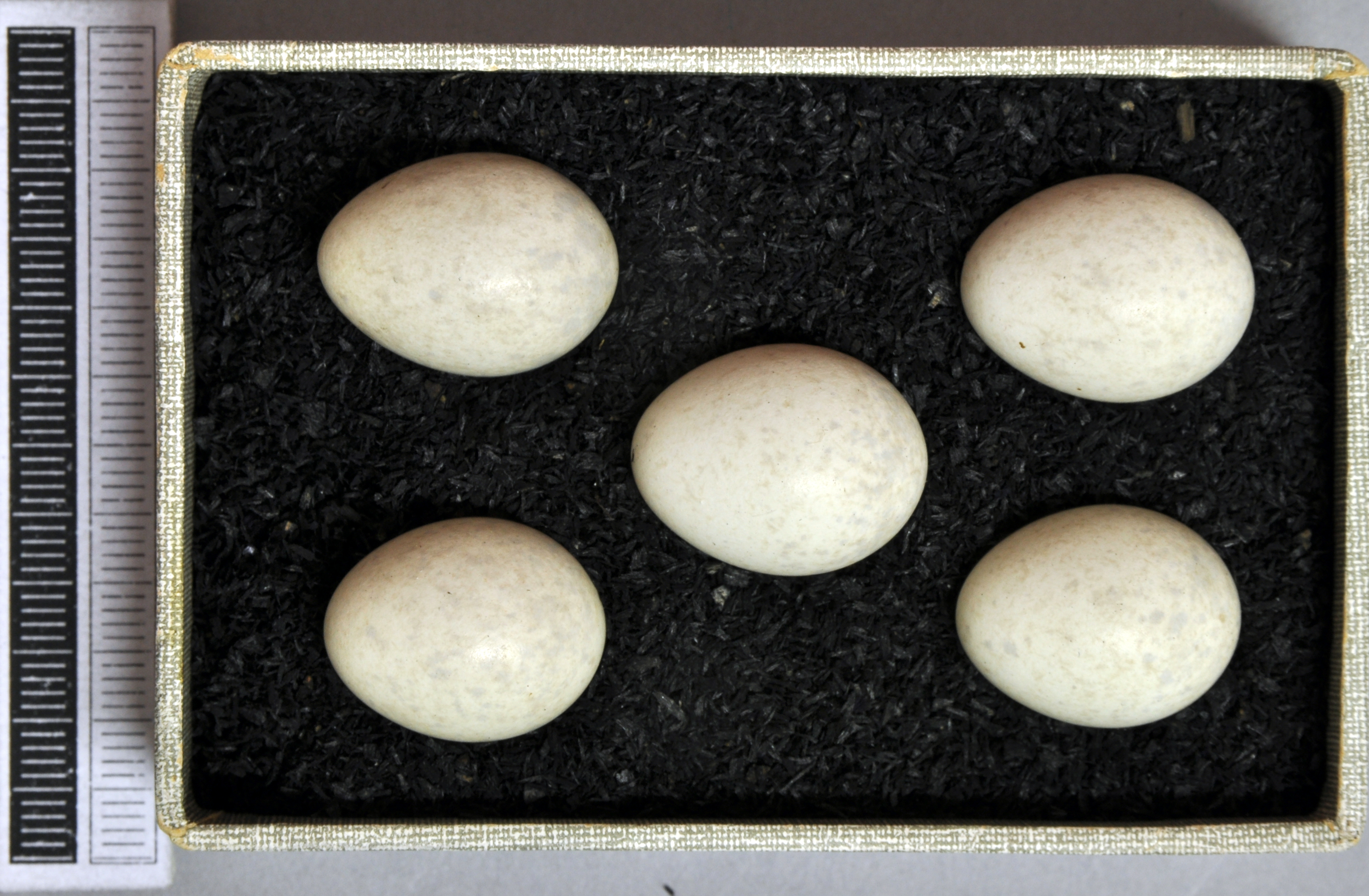 Barred warbler Sylvia nisoria , egg, Coll. Museum Wiesbaden